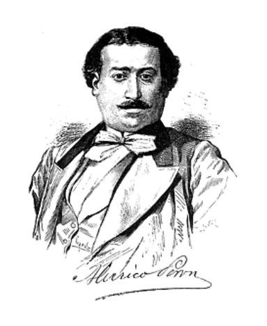 Alverico Perón (Enrique Pastor Bedoya), economist, politician and spiritualist Spanish of the 19th century.